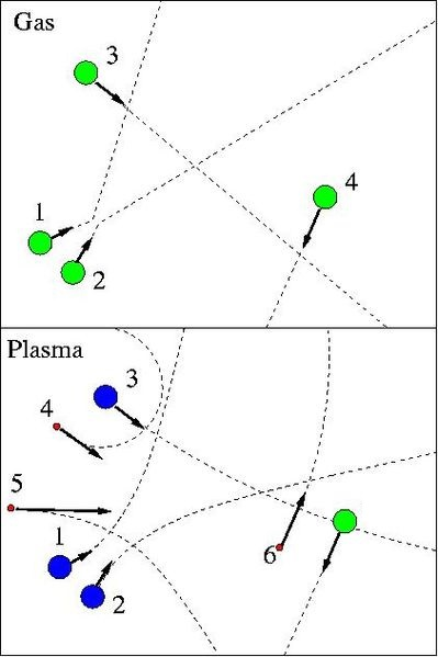 Illustration of particle dynamics in a gas and in a plasma. Neutral atoms are green, positive ions blue, electrons red.